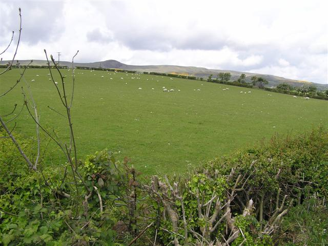 Ballygally Looking towards Scawt Hill